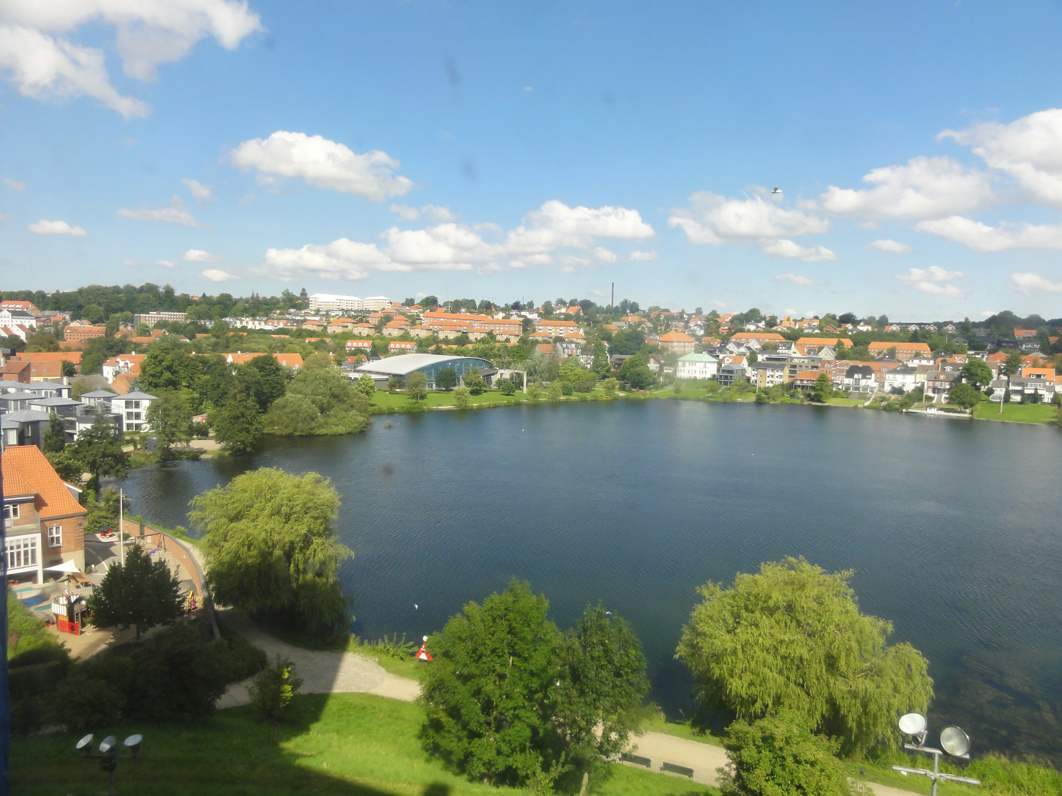 Kolding, Danemark